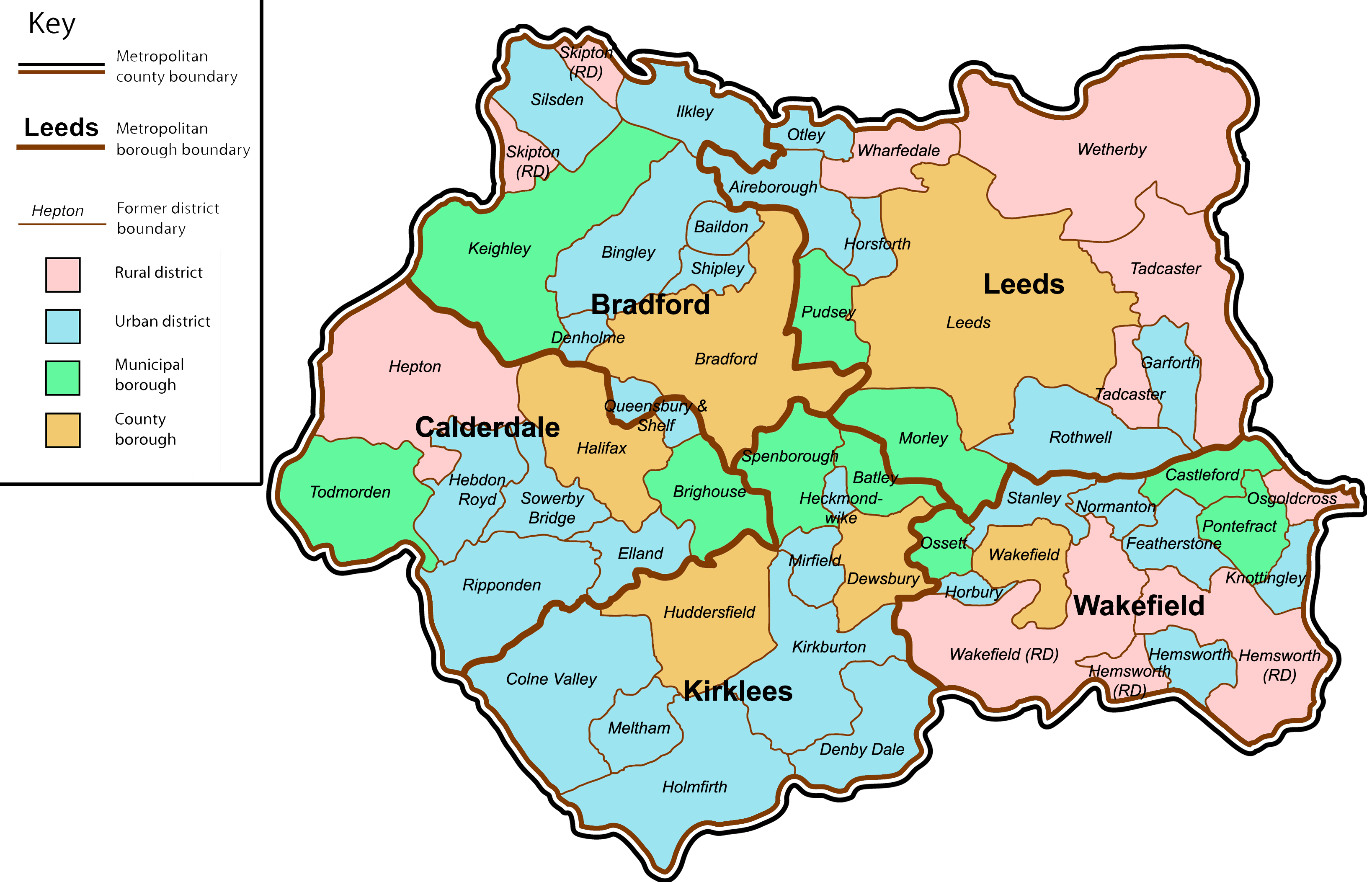 A map of the metropolitan county of West Yorkshire, England. This map highlights former and modern district boundaries (see Key for colour meaning).